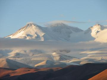 Volcán Pissis Nevado 6792m